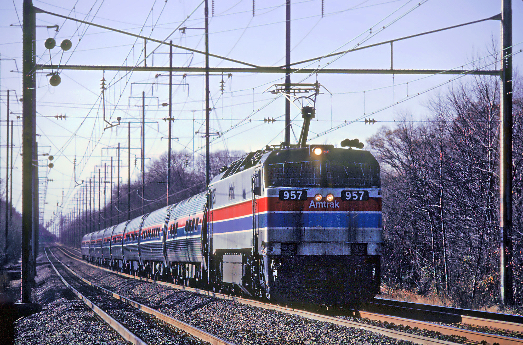 Amtrak E60CH #957 leads a northbound train through Bowie, Maryland, in December 1980